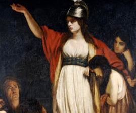 Boadicea Haranguing The Britons. John Opie, R.A. (1761-1807). Oil On Canvas.